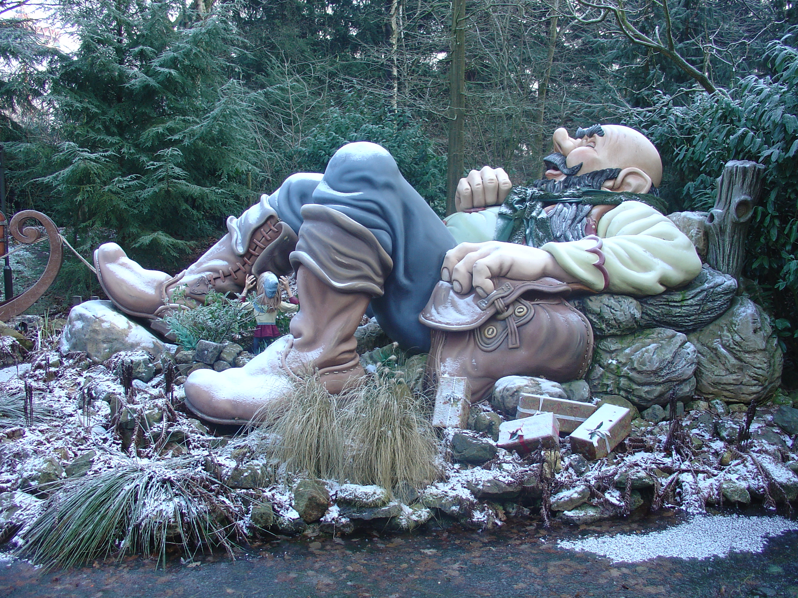 Little Thumb and the giant with the seven-league boots in the fairytale forest in the Efteling.